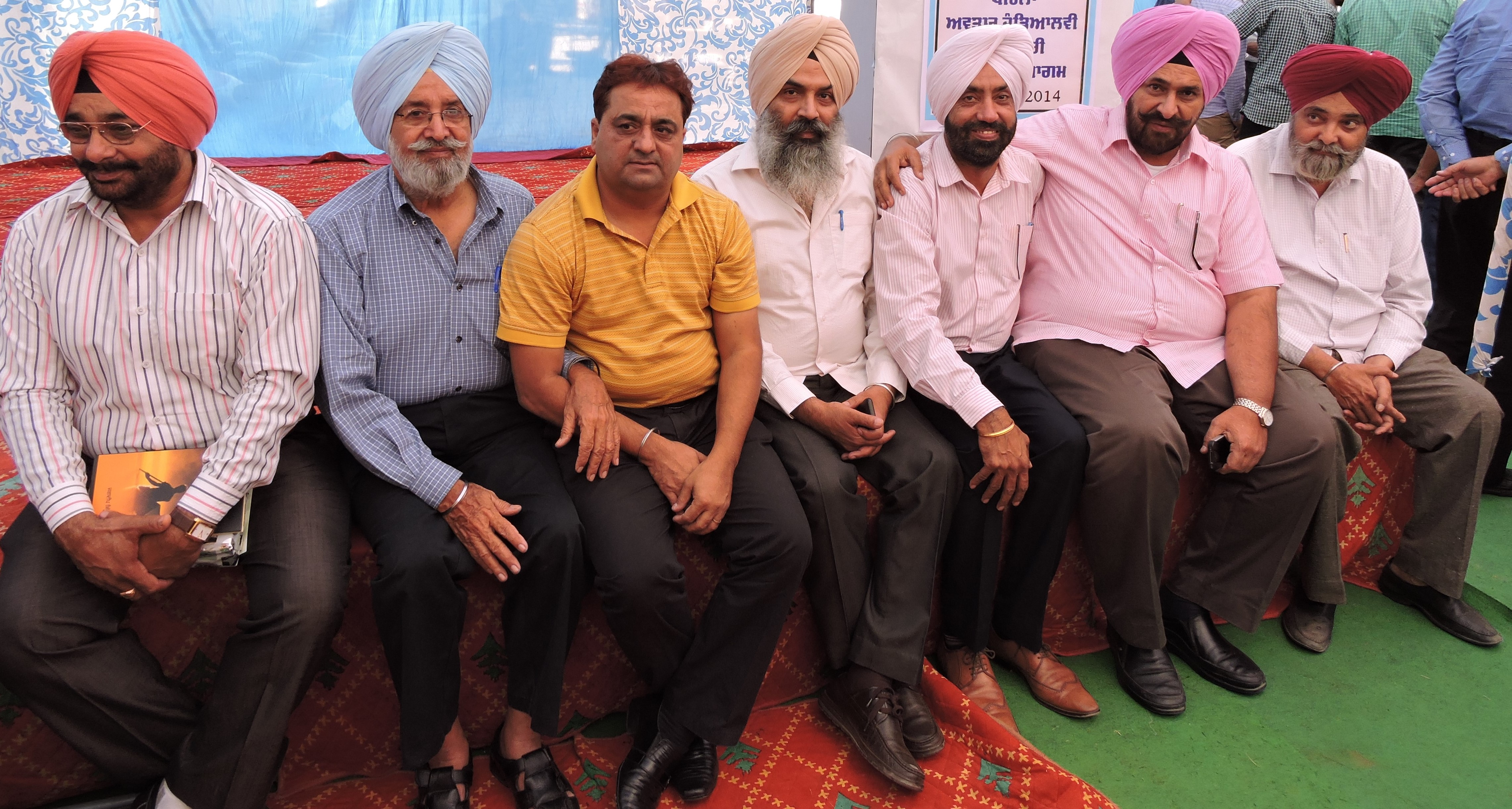 Punjabi writer with other writers .Gurbhajan Gill second left,Harvinder Singh third followed by Manjinder Dhanoa,Trelochan lochi,Anup Virk nd Kavinder Chand